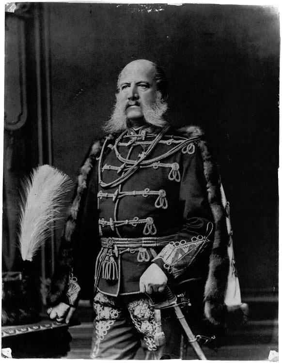 Count Miroslav Kulmer (1814-1877), Croatian general